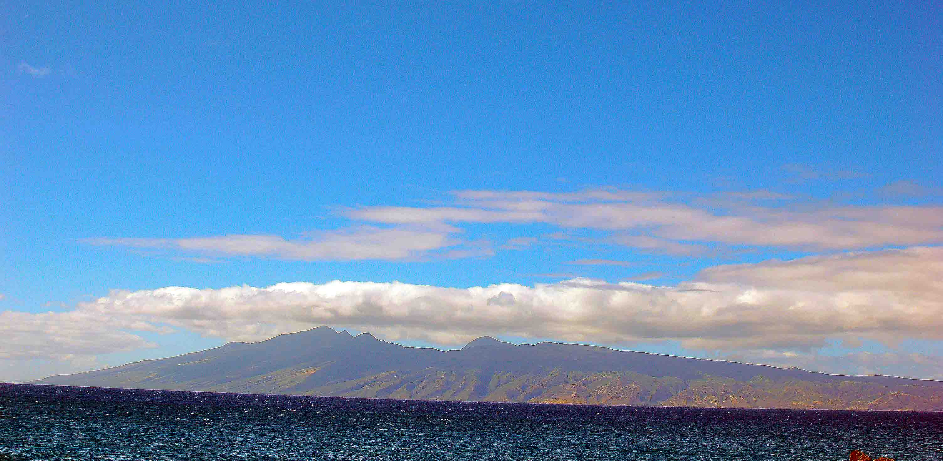 approaching Molokai